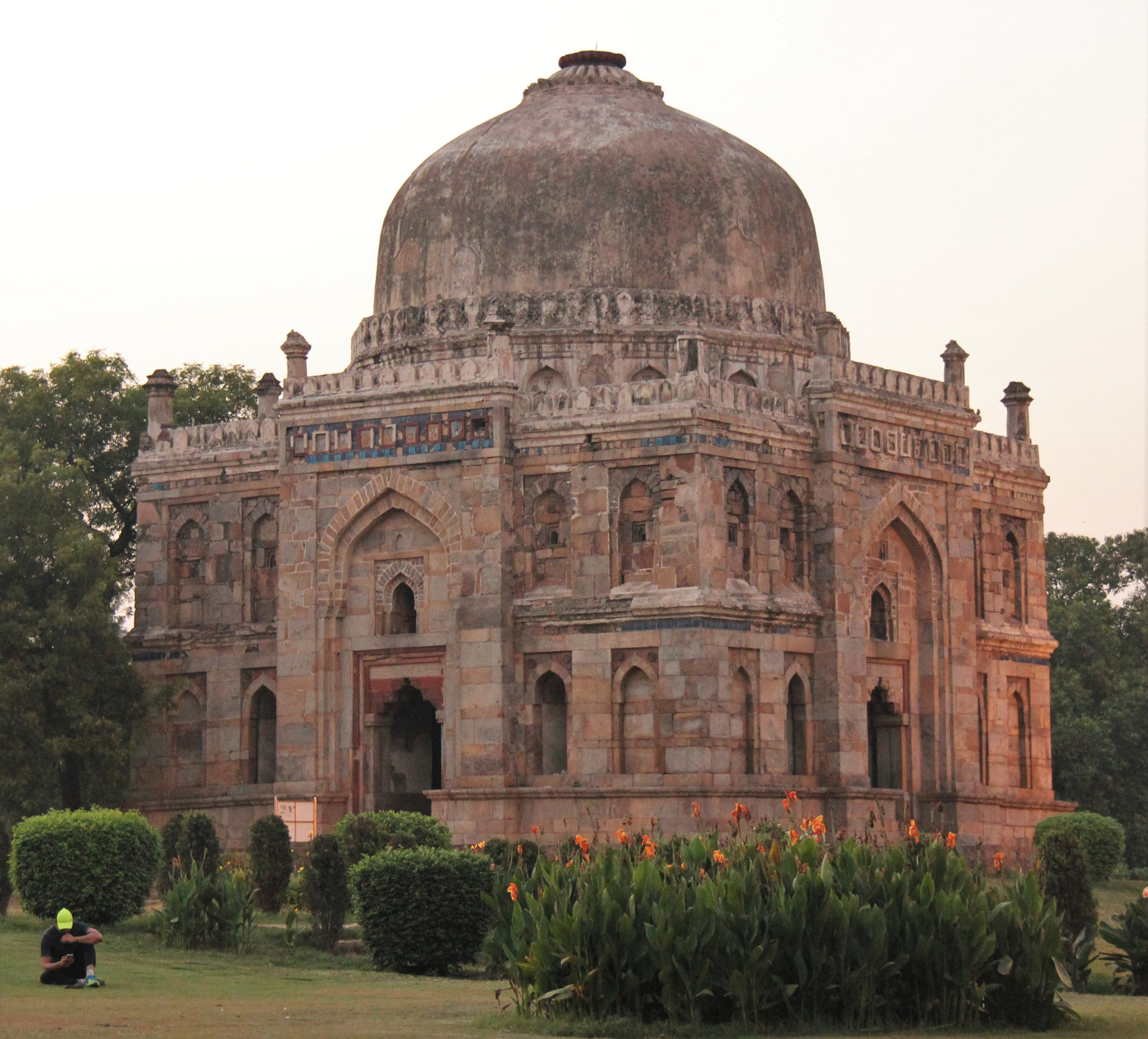 Side view of Shish Gumbad in Lodhi Gardens (Delhi)